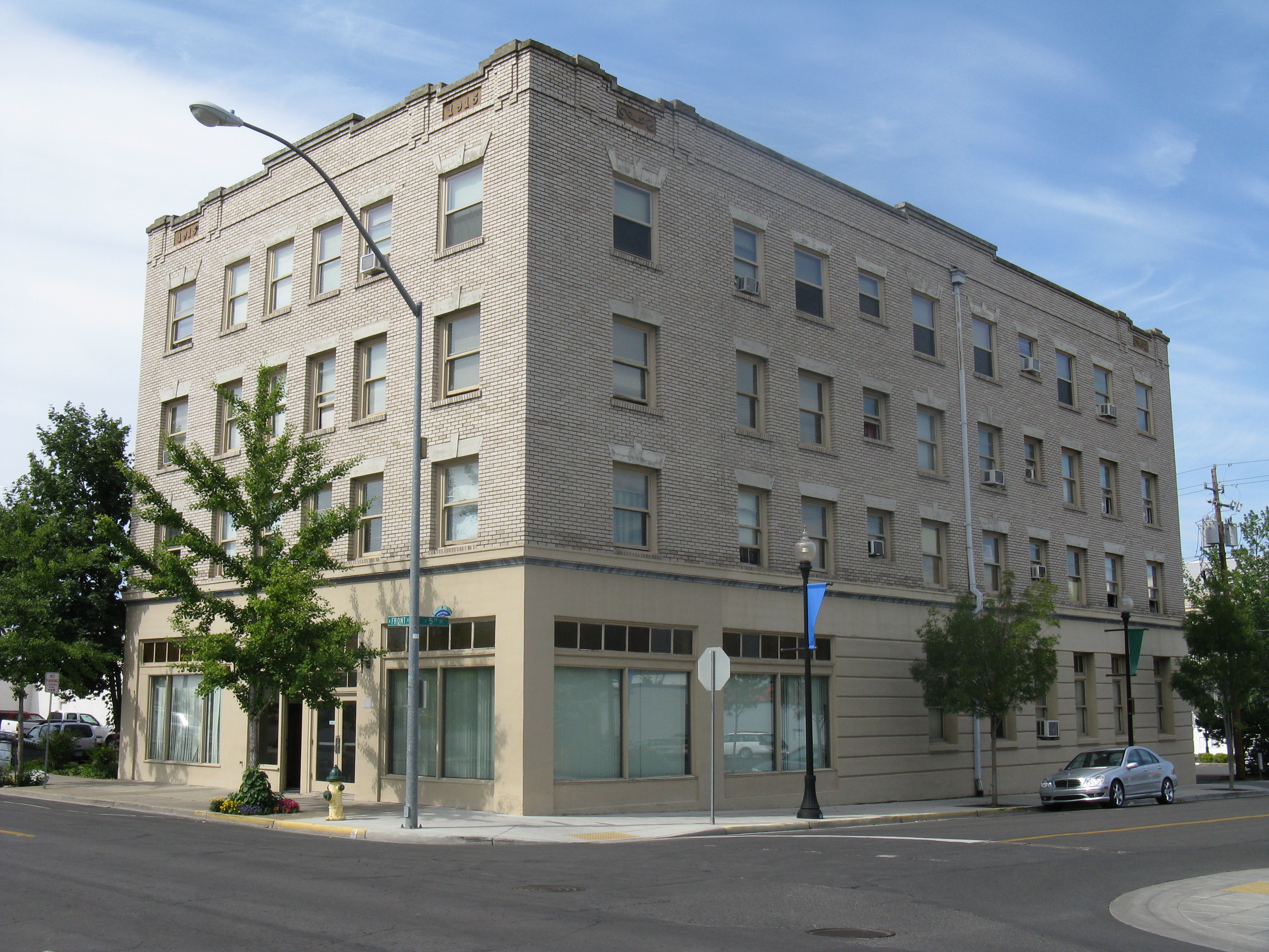 The Barnum Hotel (1915) is located at 204 North Front Street in Medford, Oregon, United States. It is listed on the US National Register of Historic Places (NRHP). NRHP reference number 84003009